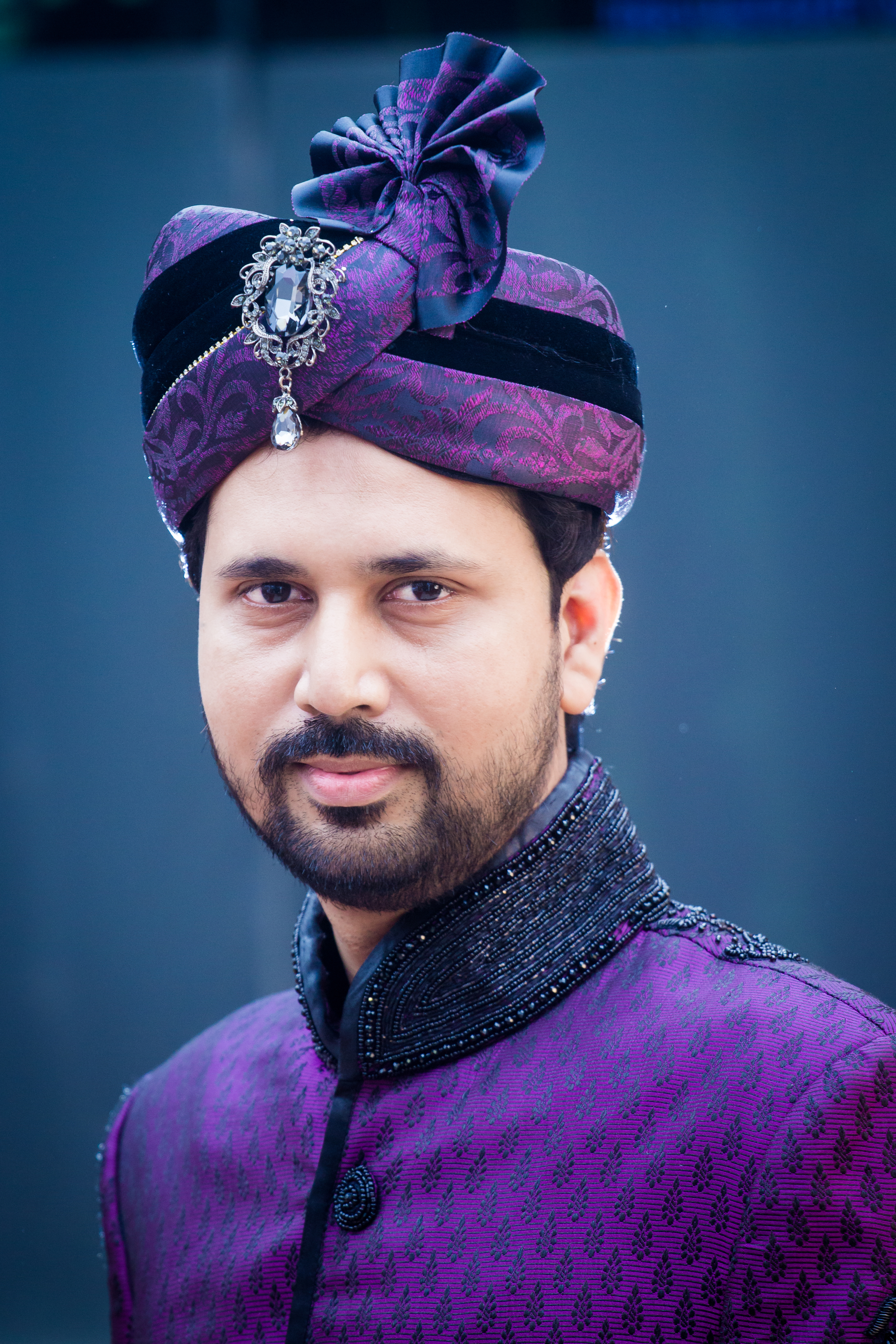 Bridegroom of Bangladesh